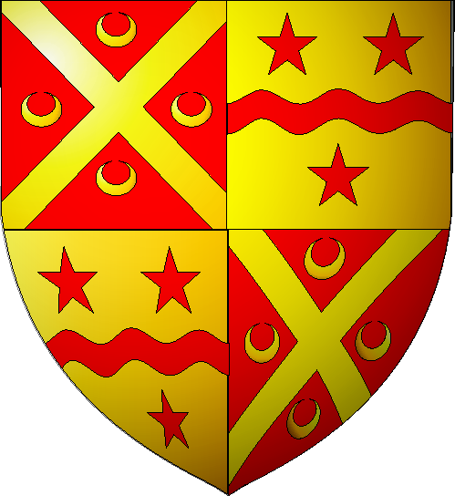 Coat of arms of Baron Kinnaird of Inchture Blazon: Quarterly 1st and 4th Gules a saltire between four crescents Or; 2nd and 3rd Or a fess wavy between three mullets Gules.